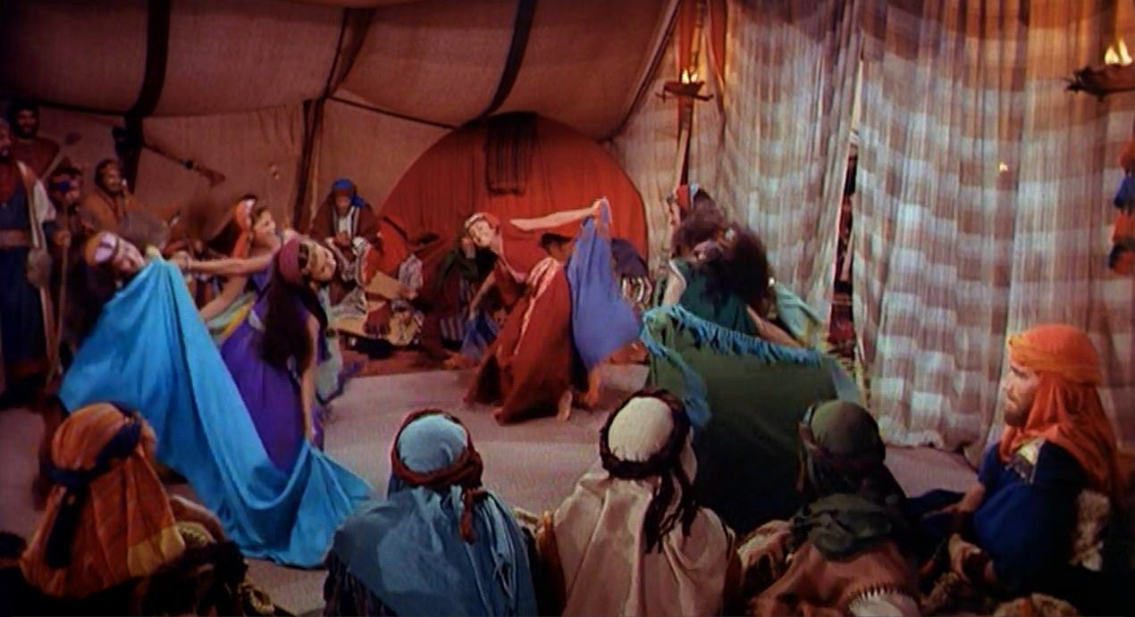 The Ten Commandments, Jethro's Daughters' Dance - trailer (cropped screenshot)